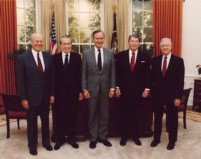 Presidents Gerald Ford, Richard Nixon, George Herbert Walker Bush, Ronald Reagan and Jimmy Carter at the dedication of the Reagan Presidential Library (Left to right).